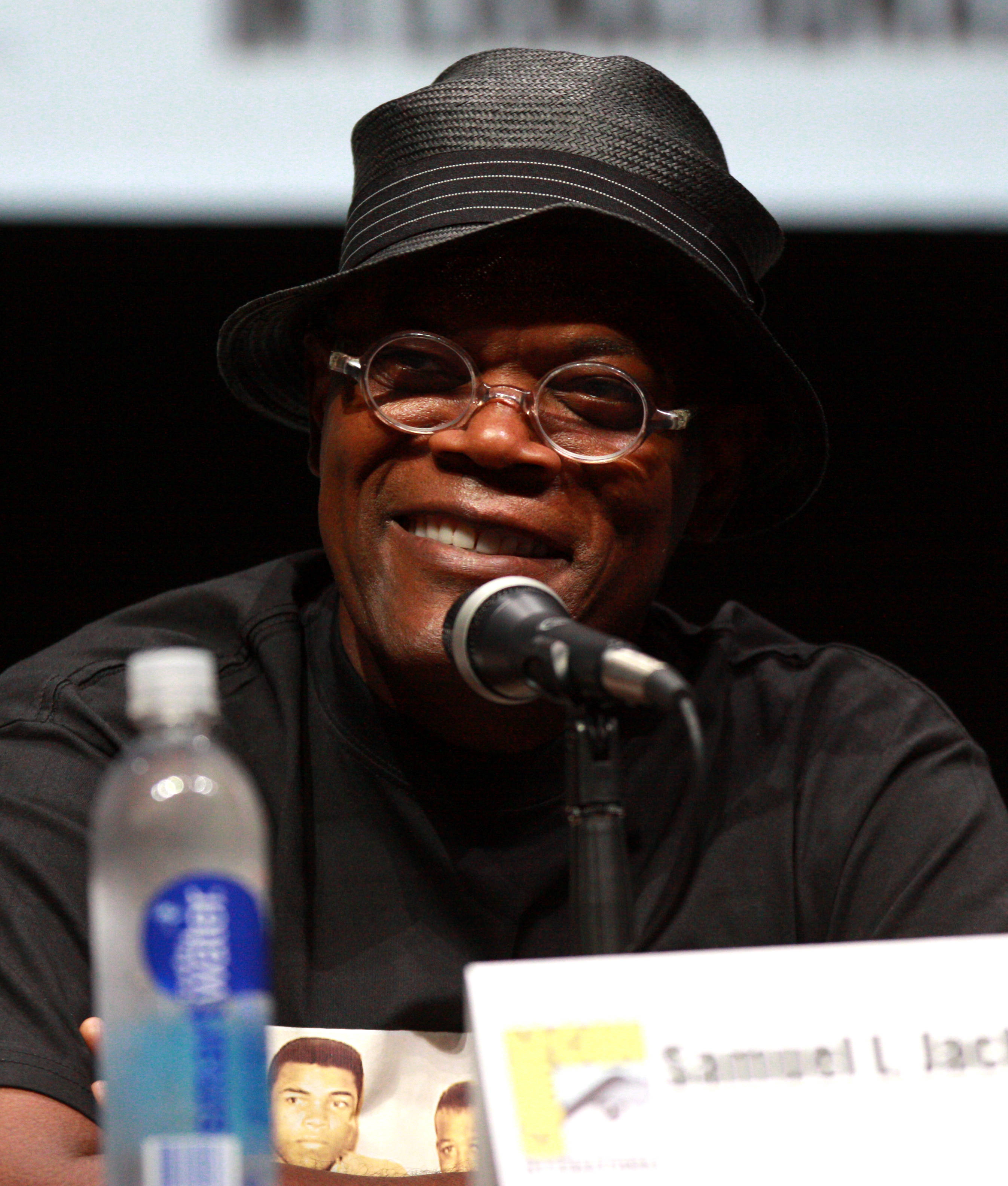 Samuel L. Jackson at the 2013 San Diego Comic Con International in San Diego, California.